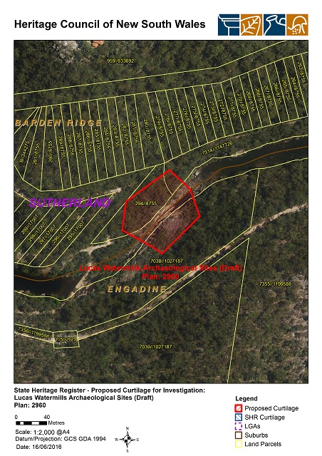 Lucas Watermills Archaeological Sites: SHR Plan - Woronora Mill